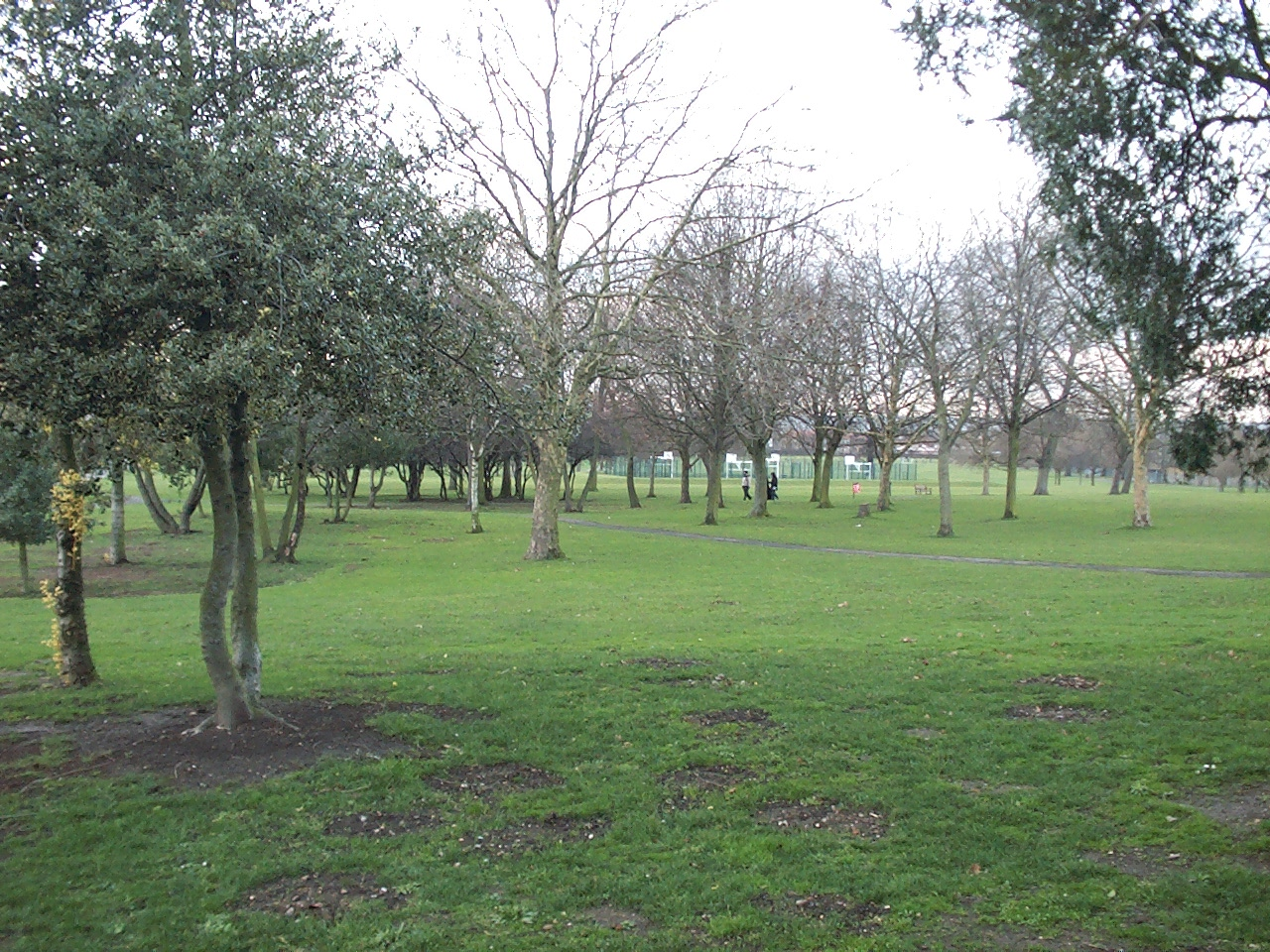 Roe Green Park, Kingsbury, London NW9. In the centre are the new basketball courts, built where the old swimming pool was.